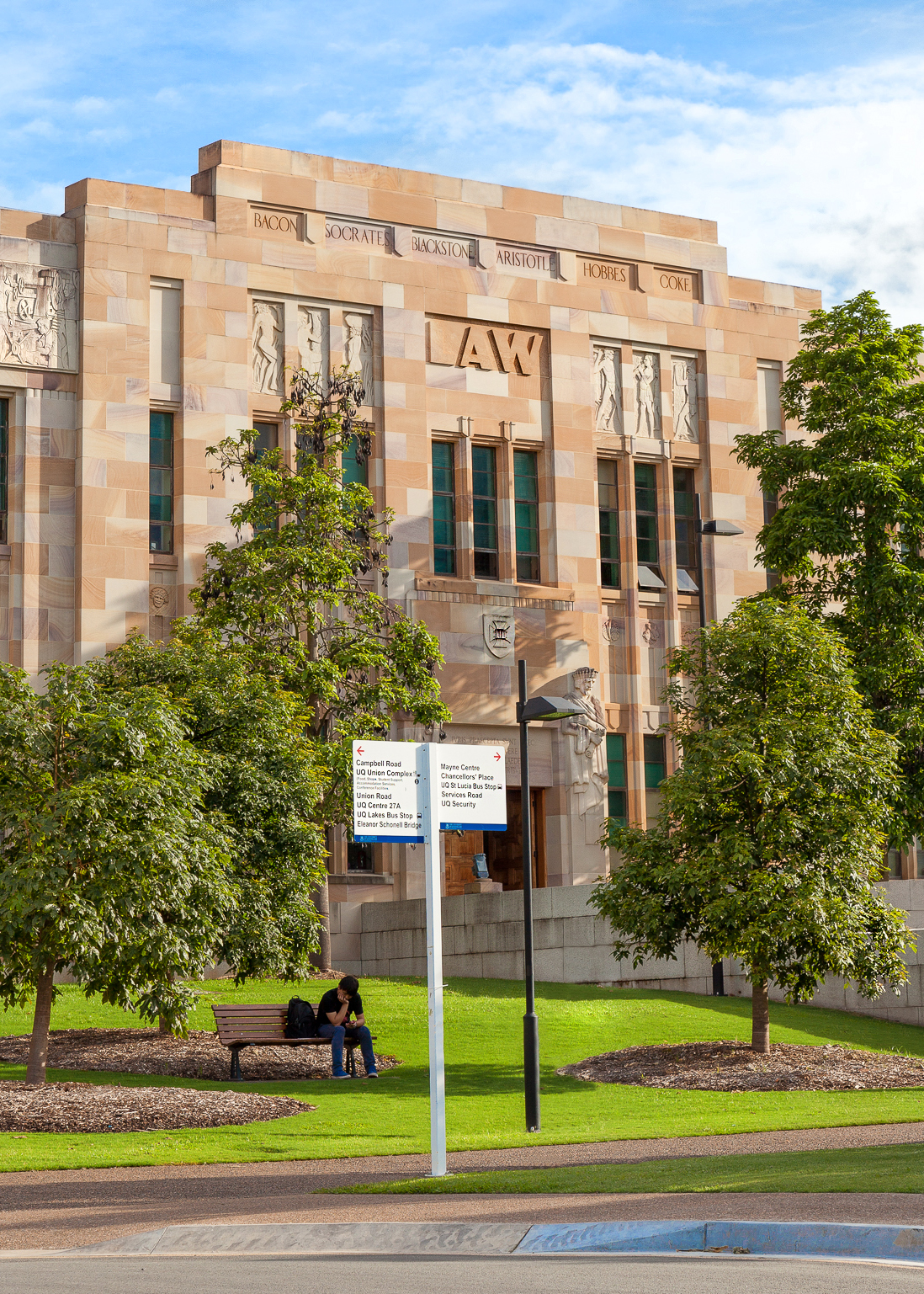 North entry of the TC Beirne School of Law, The University of Queensland